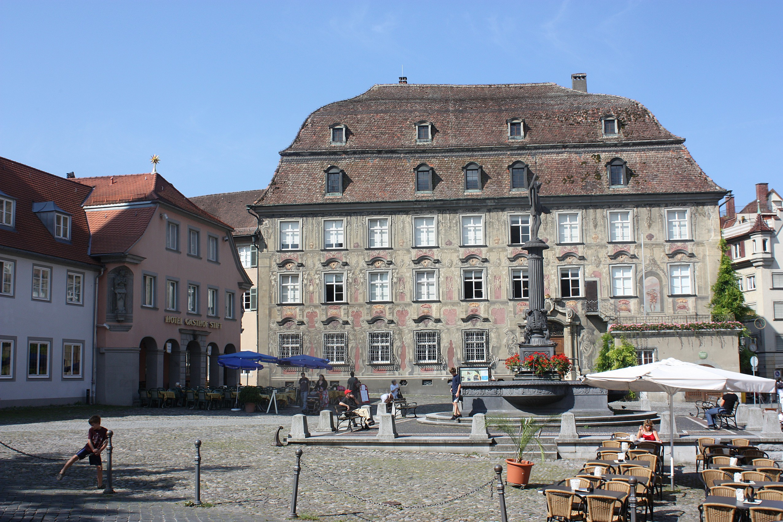 Lindau, Haus zum Cavazzen (Stadtmuseum) This is a photograph of an architectural monument.